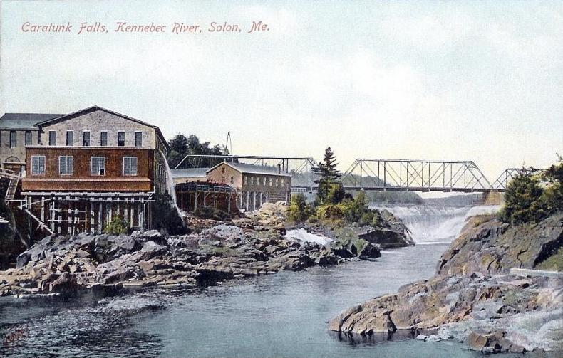 Caratunk Falls, Kennebec River, Solon, Maine; from a 1909 postcard published by the Metropolitan News Company, Boston, Massachusetts.